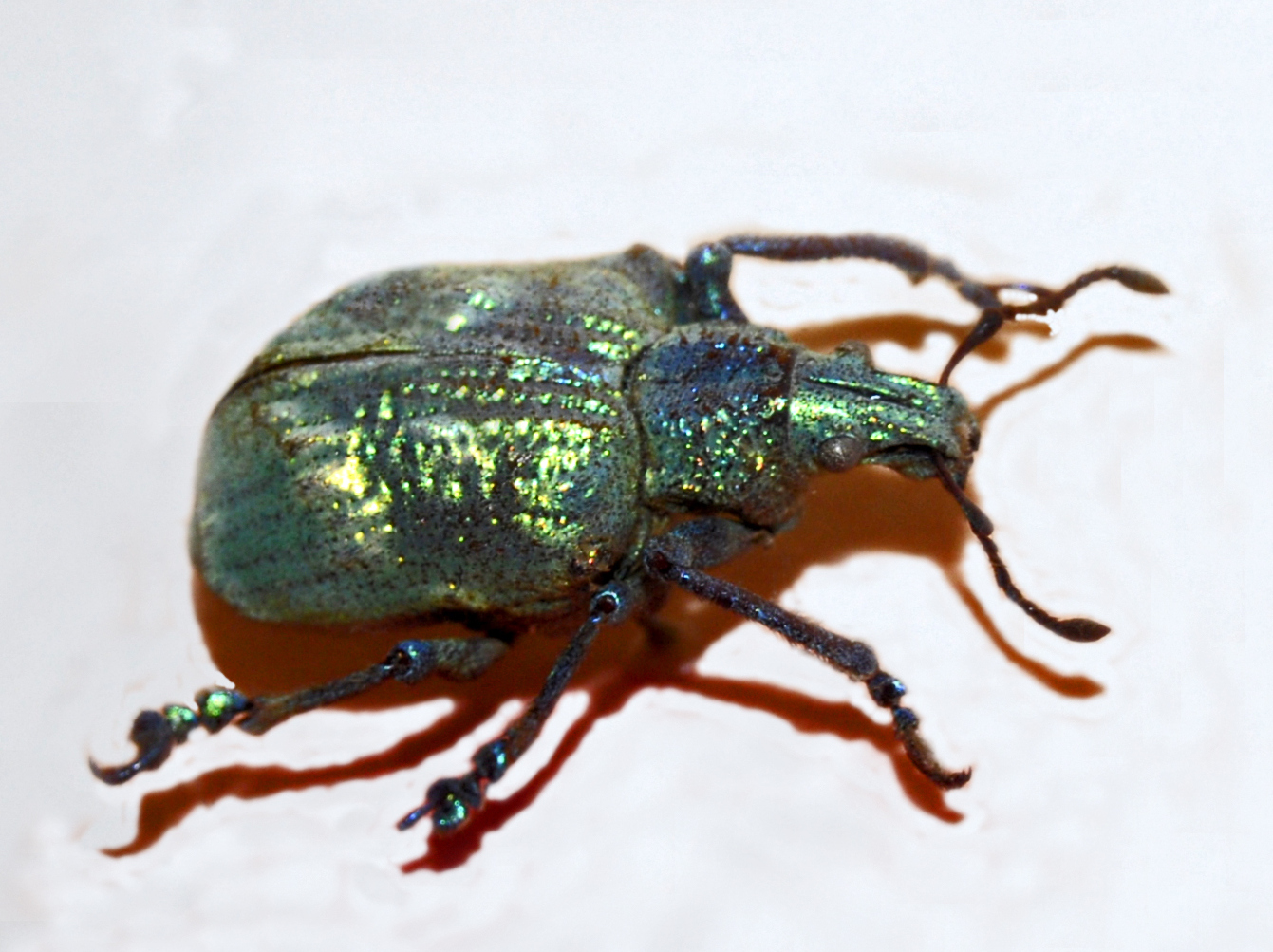 Museum specimen of Lamprocyphus cf. augustus. On display at the Museo Civico di Storia Naturale di Milano